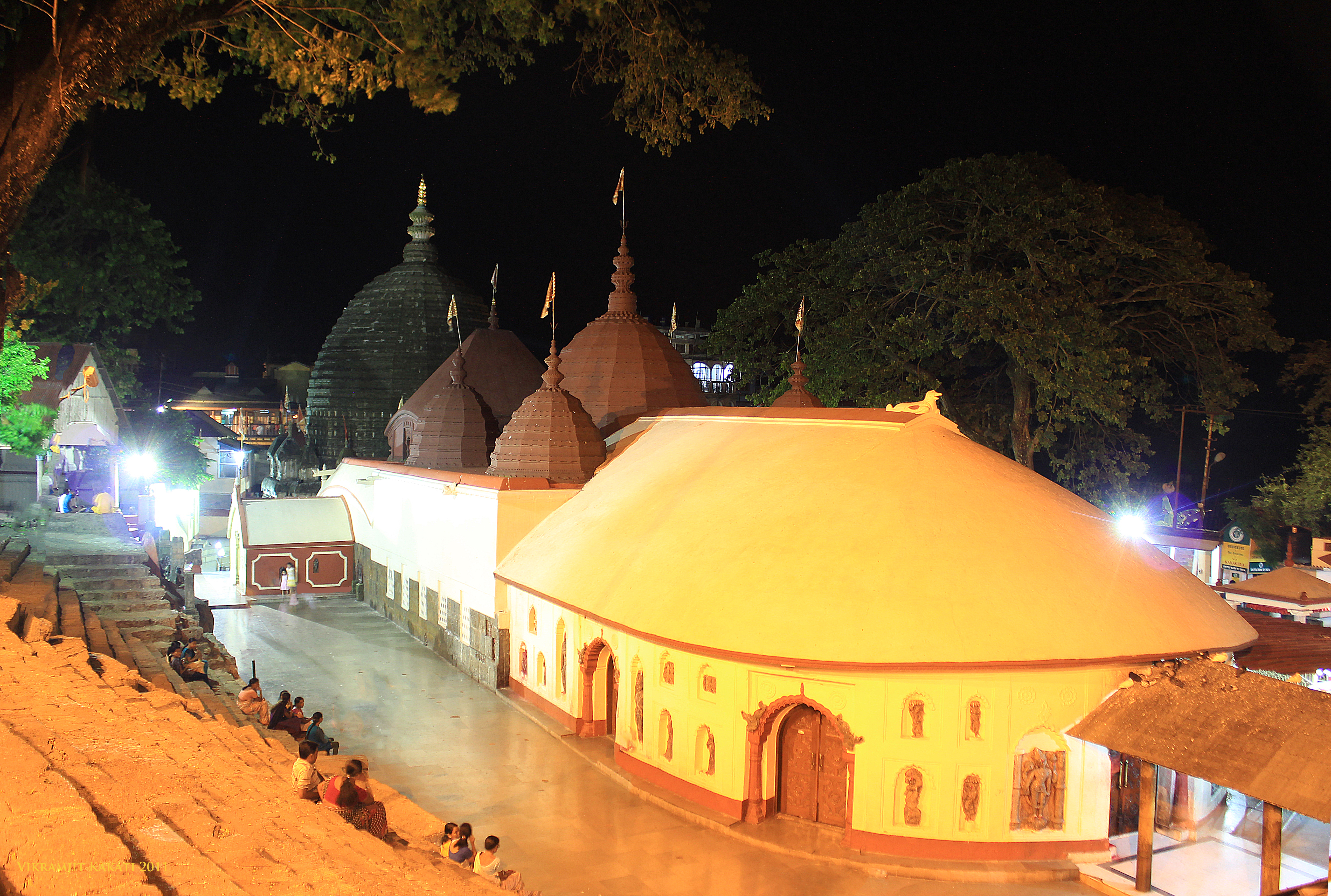 The Kamakhya Temple (Assamese: কামাখ্যা মন্দিৰ); also Kamrup-Kamakhya[2] is a Hindu temple dedicated to the mother goddess Kamakhya.[3] It is one of the oldest of the 51 Shakti Pithas.[4] Situated on the Nilachal Hill in western part of Guwahati city in Assam, India, it is the main temple in a complex of individual temples dedicated to the ten Mahavidyas: Kali, Tara, Sodashi, Bhuvaneshwari, Bhairavi, Chhinnamasta, Dhumavati, Bagalamukhi, Matangi and Kamala.[5] Among these, Tripurasundari, Matangi and Kamala reside inside the main temple whereas the other seven reside in individual temples.[6] It is an important pilgrimage destination for general Hindu and especially for Tantric worshipers. In July 2015, the Supreme Court of India transferred the administration of the Temple from the Kamakhya Debutter Board to the Bordewri Samaj.[7]